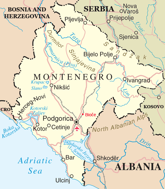 Map of Montenegro showing the location of the Bioče train disaster, adapted and edited from